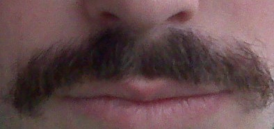 Short, dark mustache